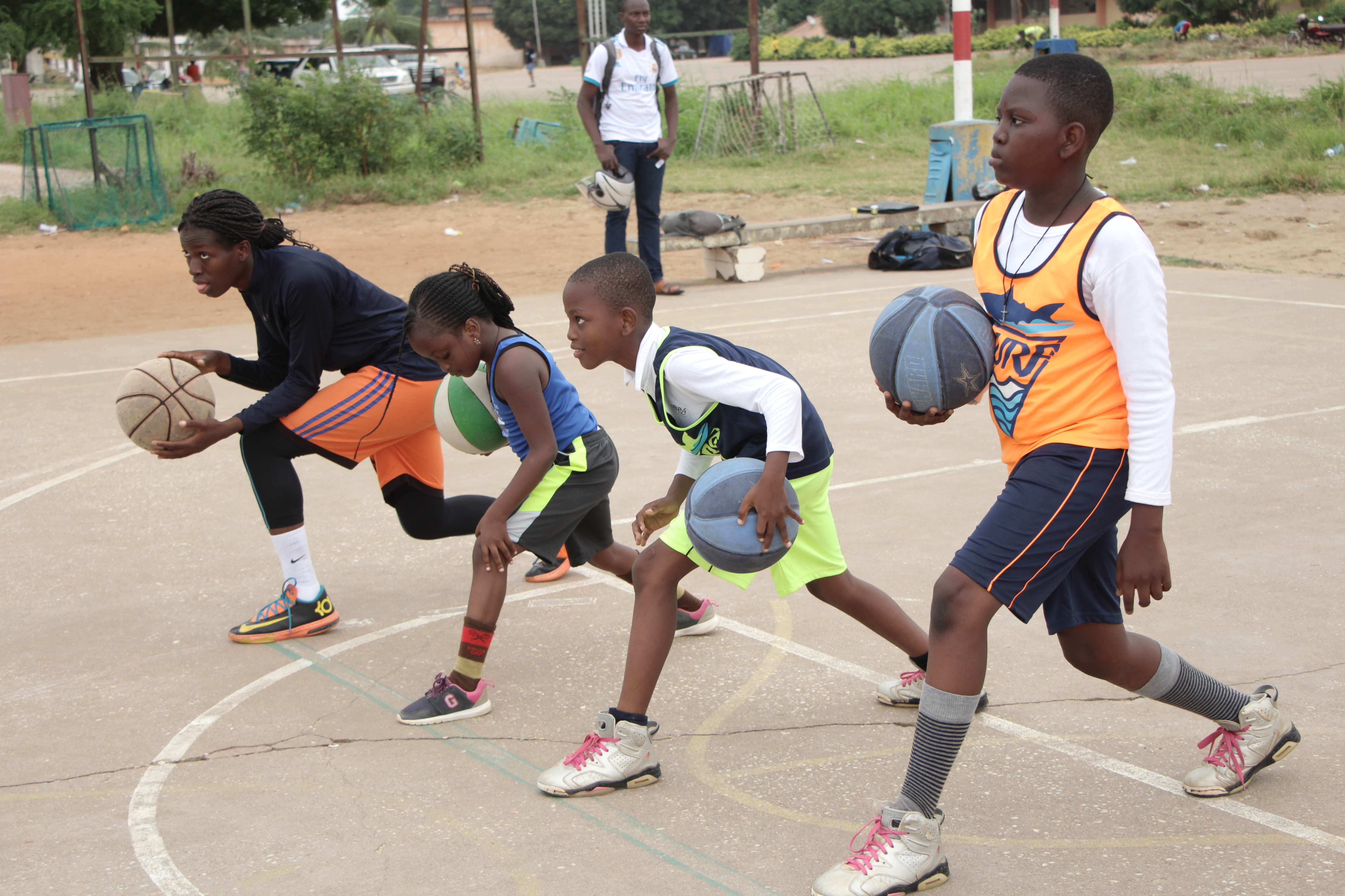 An equal number of girls and boys, all you need for a better team and a good game.